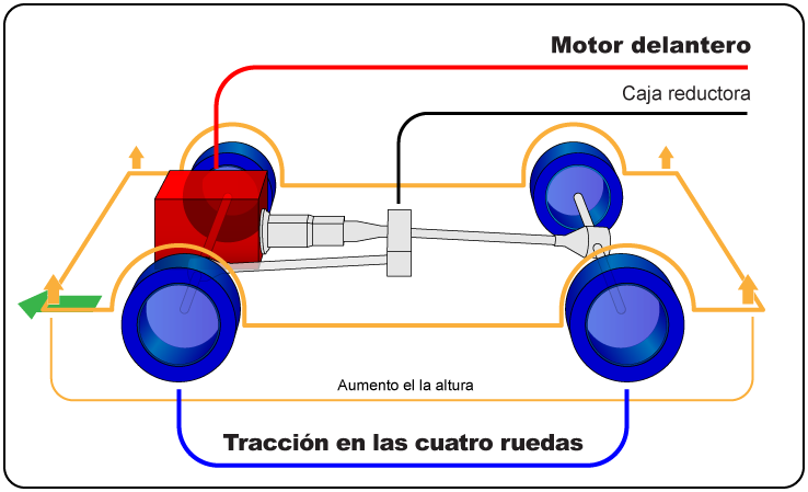 Vehicle engine and drive wheel placement diagrams (English versions coming up)